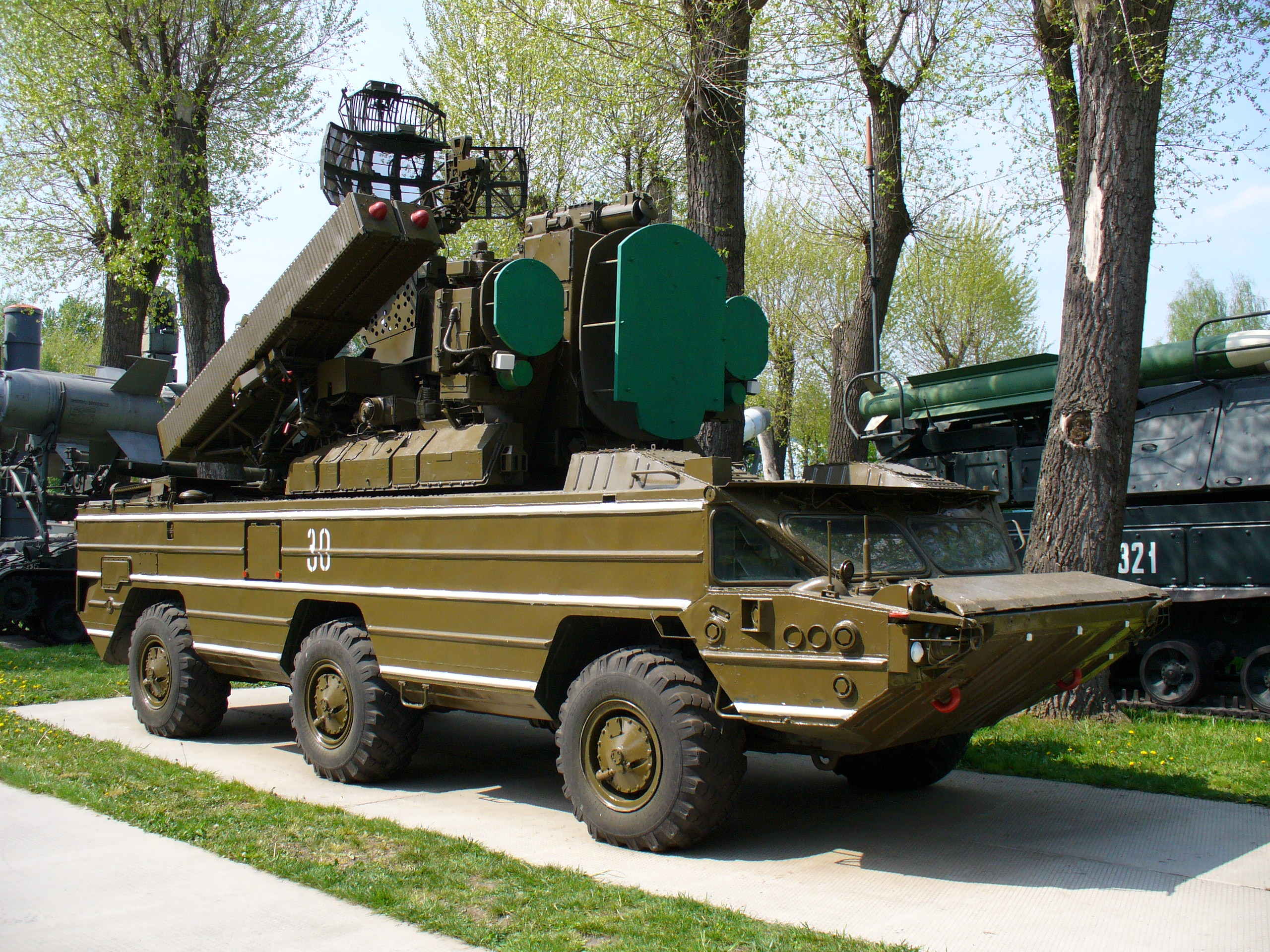 9K33M3 "OSA-AKM" (US DoD designation SA-8B "Gecko Mod-1") Ukrainian Air Force Museum in Vinnitsa